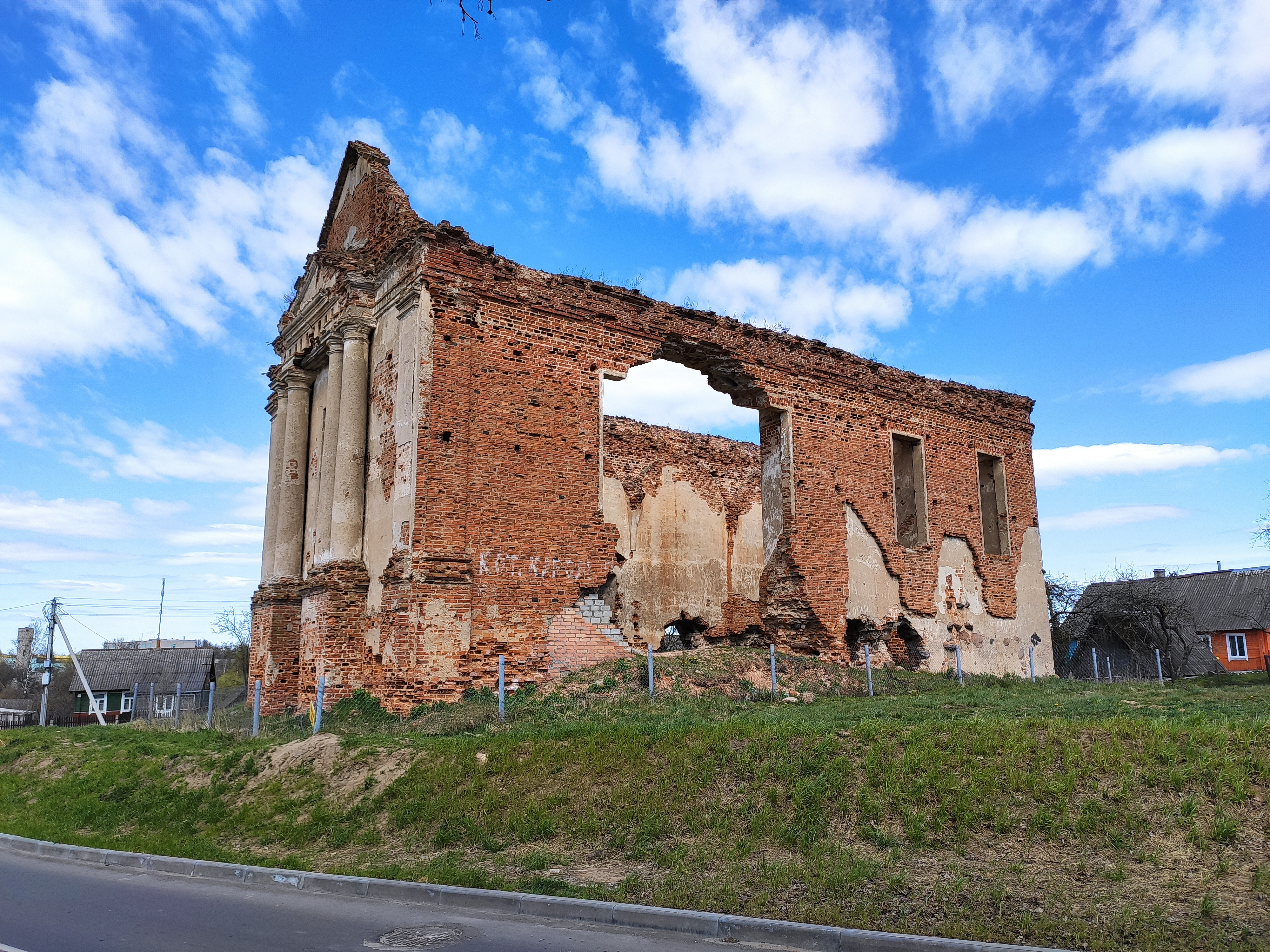 Church of Franciscans, Ashmiany